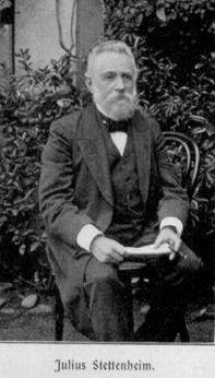 Photo of Julius Stettenheim (1900)